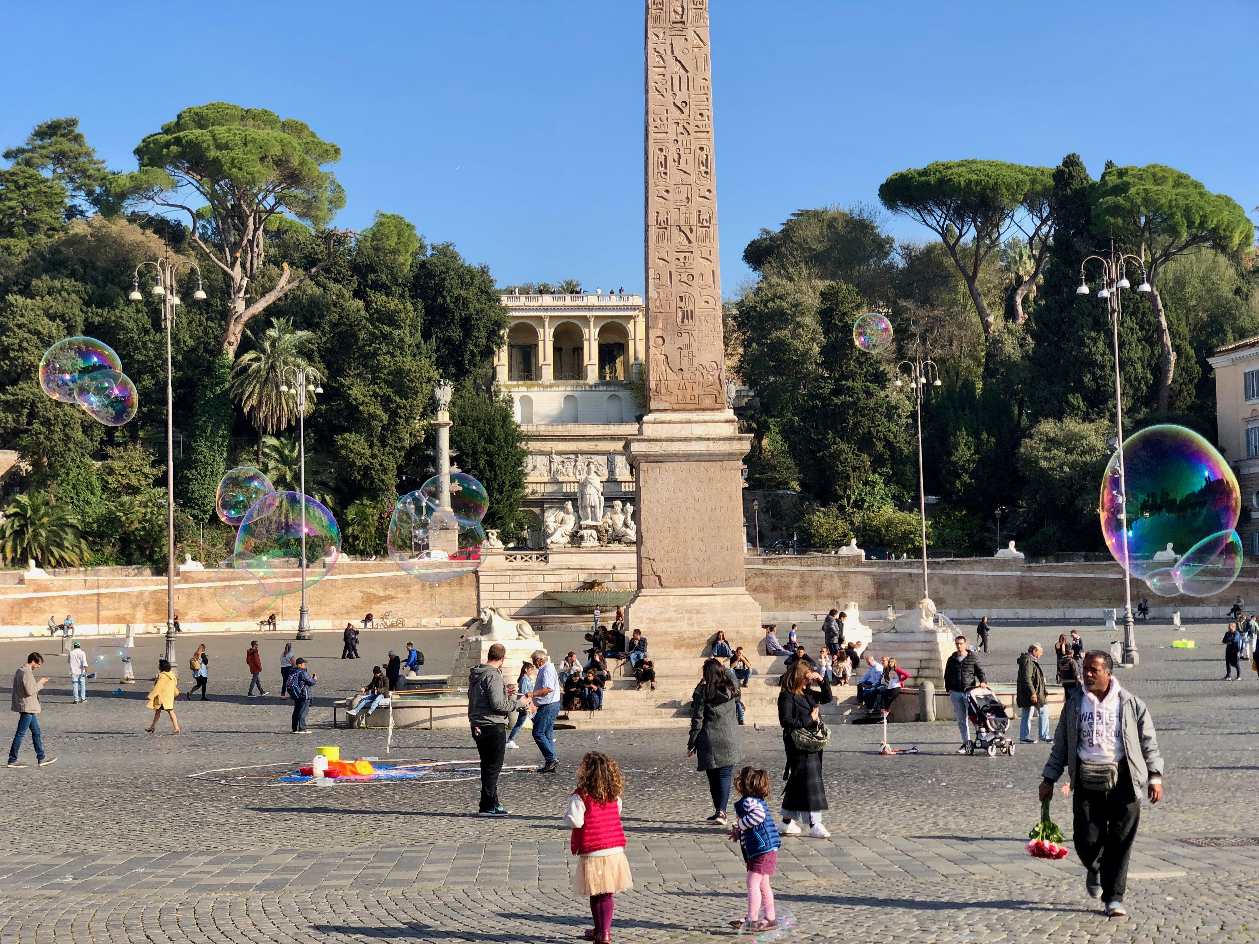 Rome, Italy